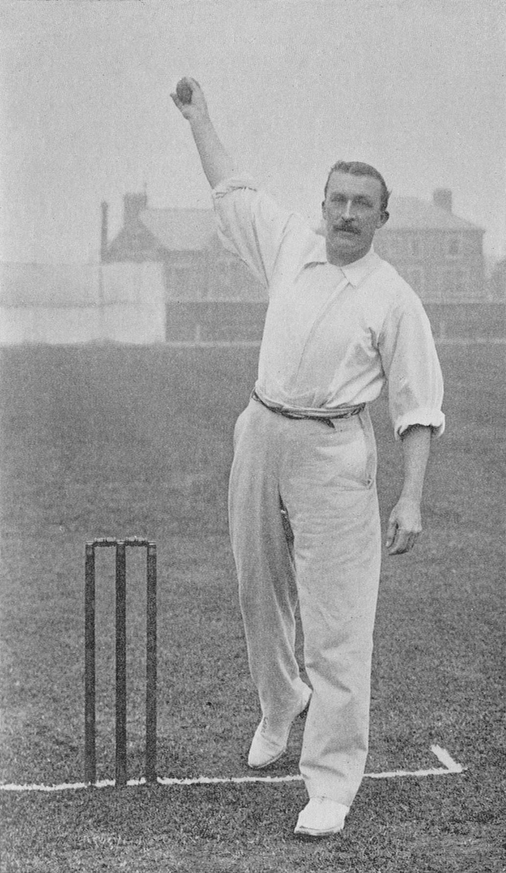 "Attewell just before delivery."